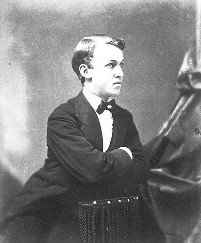 Portrait of Edward Salisbury Dana, Yale College Class of 1870. Image courtesy of the Yale University Manuscripts & Archives Digital Images Database. Retouched by MarmadukePercy.